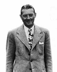 American professional golfer and golf administrator Frank T. Sprogell (1895-1978). Author Unknown Date Circa 1938-43